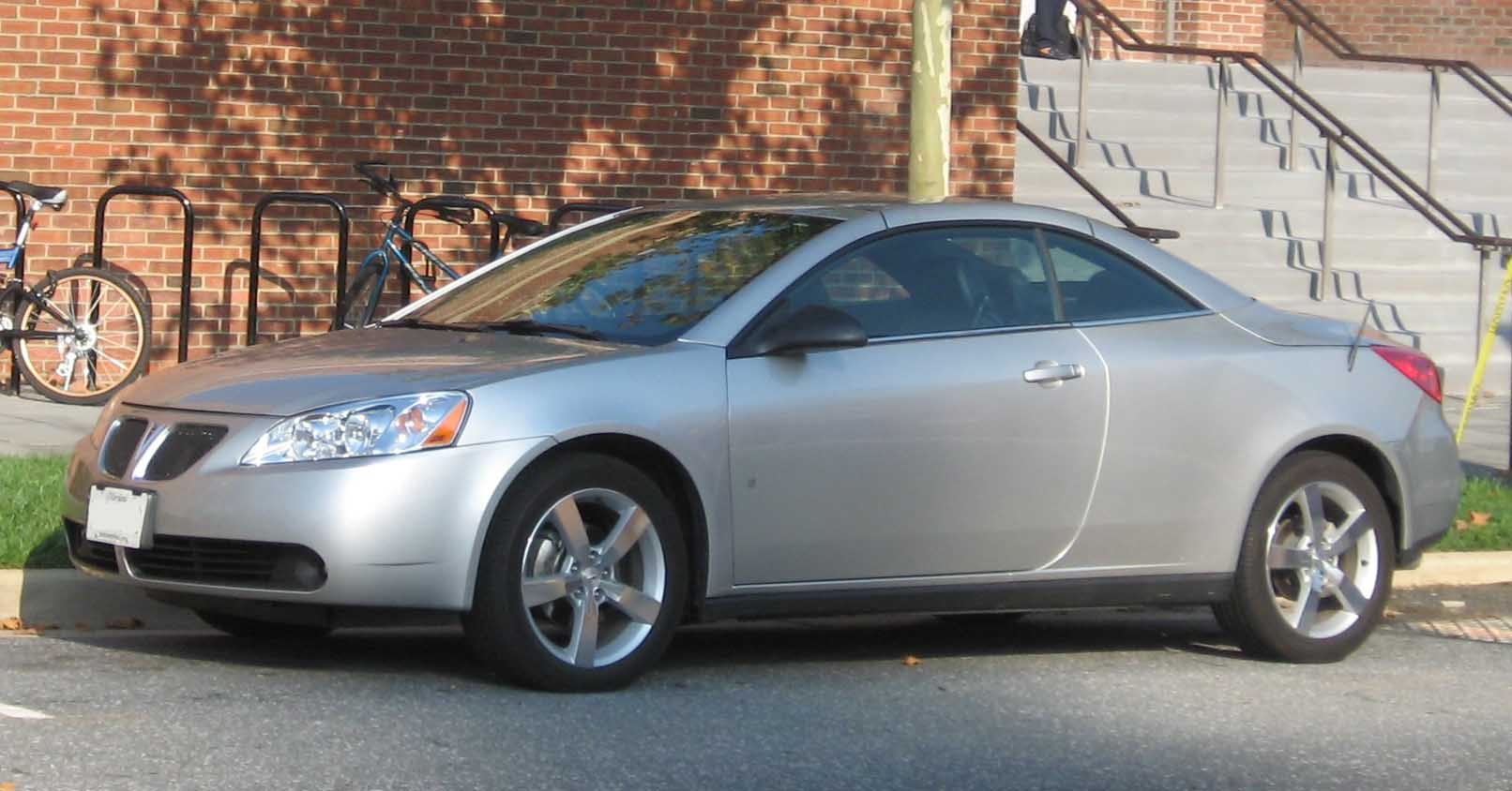 2007-2008 Pontiac G6 photographed in College Park, Maryland, USA.